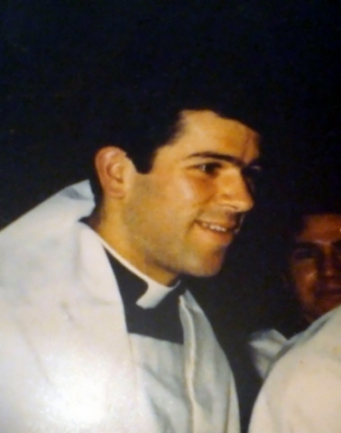 Father Alvaro Corcuera L.C.